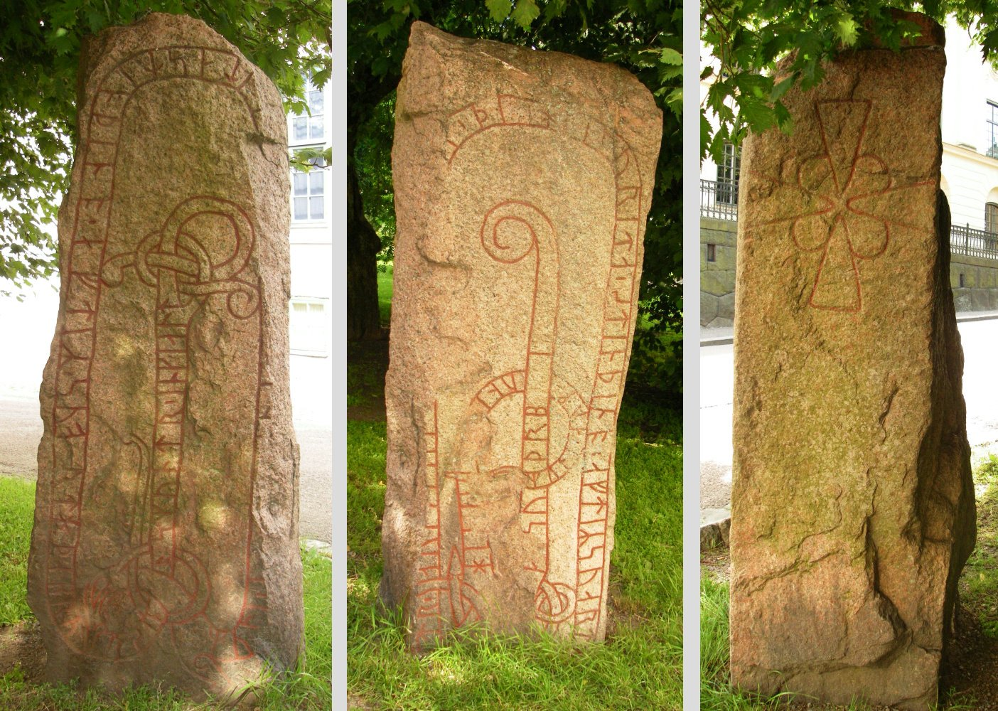 runic stone Upplands runinskrifter U932